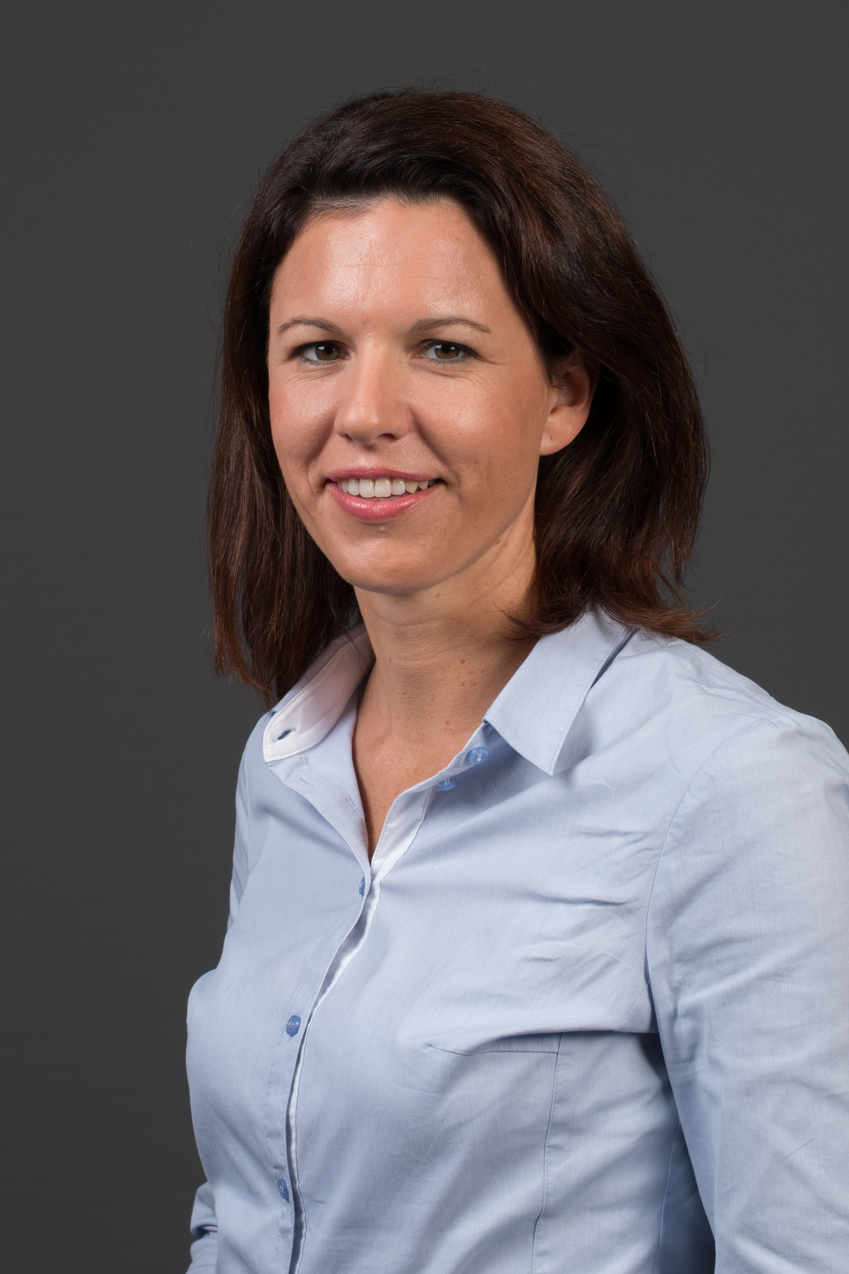 Katja Leikert MdB, CDU/CSU